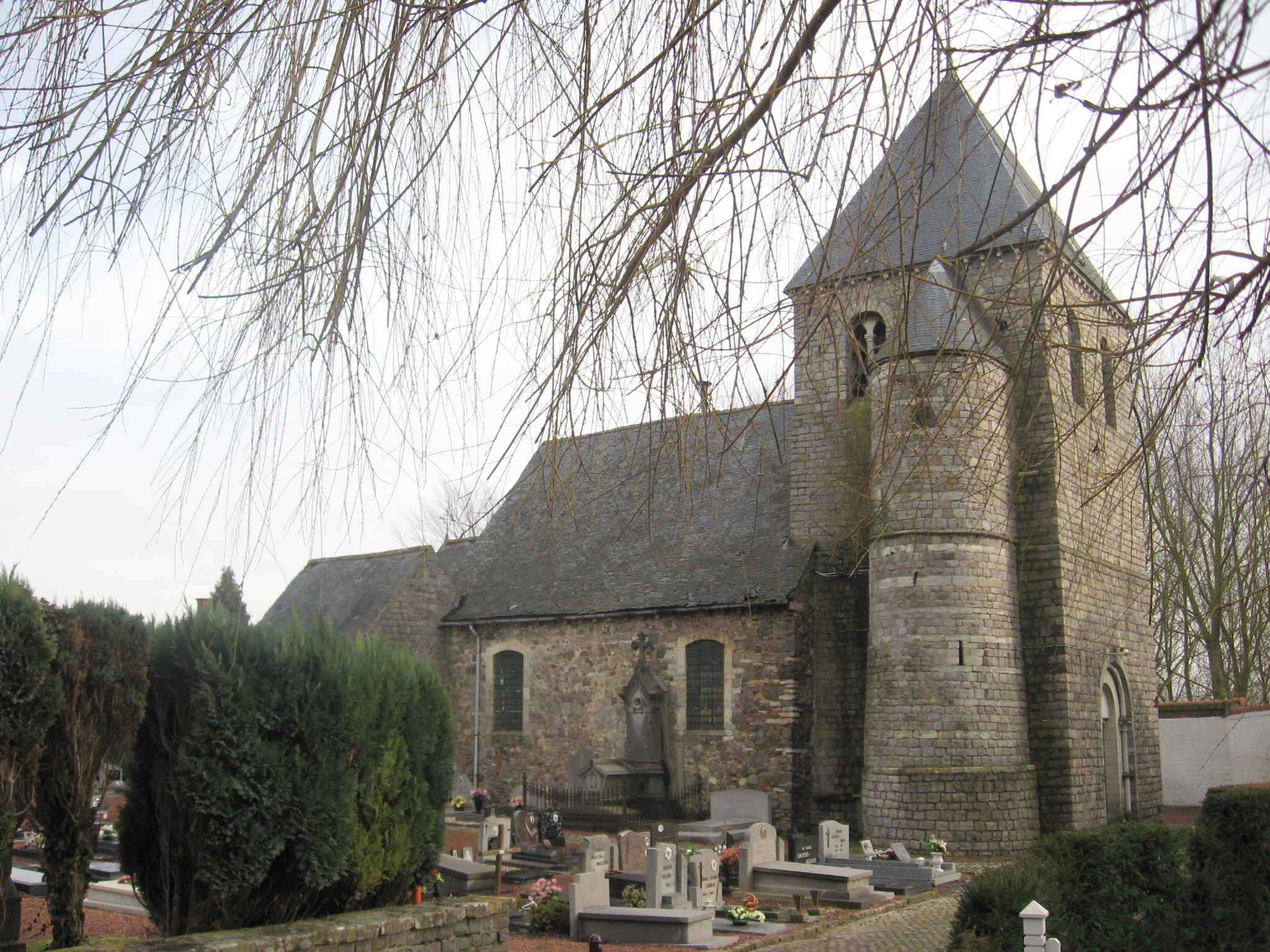 Church of Saint Lambert in Groot-Overlaar, Oorbeek, Tienen, Flemish Brabant, Belgium